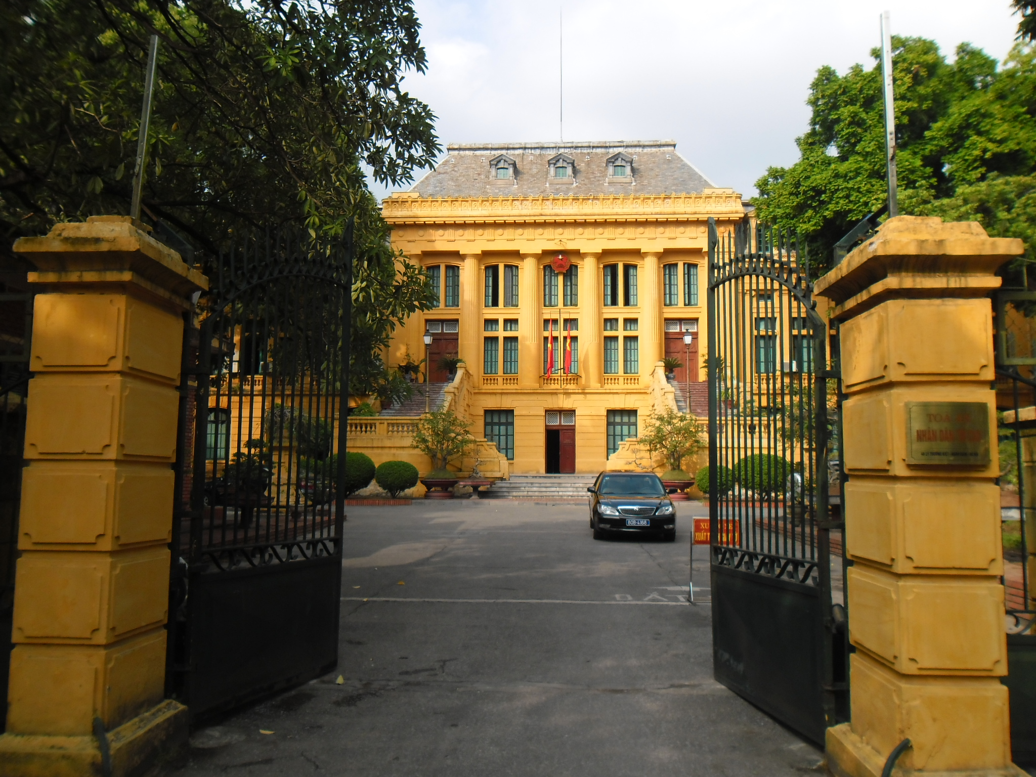 Supreme People's Court of Vietnam is located on 48 Ly Thuong Kiet Strt, Hanoi